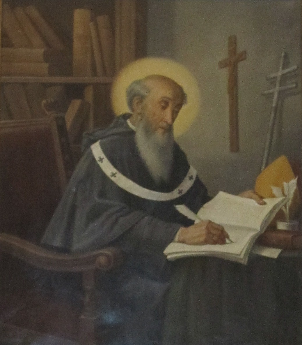 James of Viterbo, picture 17th century, Church Ss.Trinità, Viterbo.